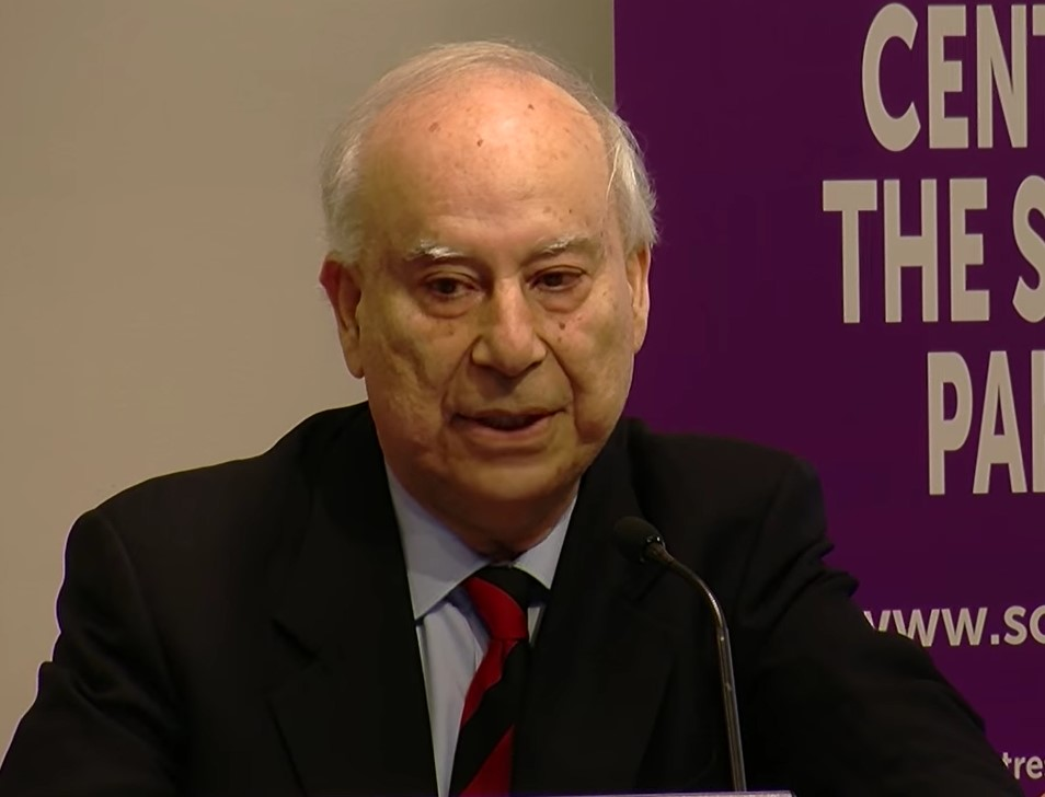 Professor Akbar Salahuddin Ahmed at SOAS in 2016.